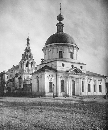 Moscow, Сhurch of St Demetrius of Thessaloniki at Tver Gate. Demolished in 1933/34.